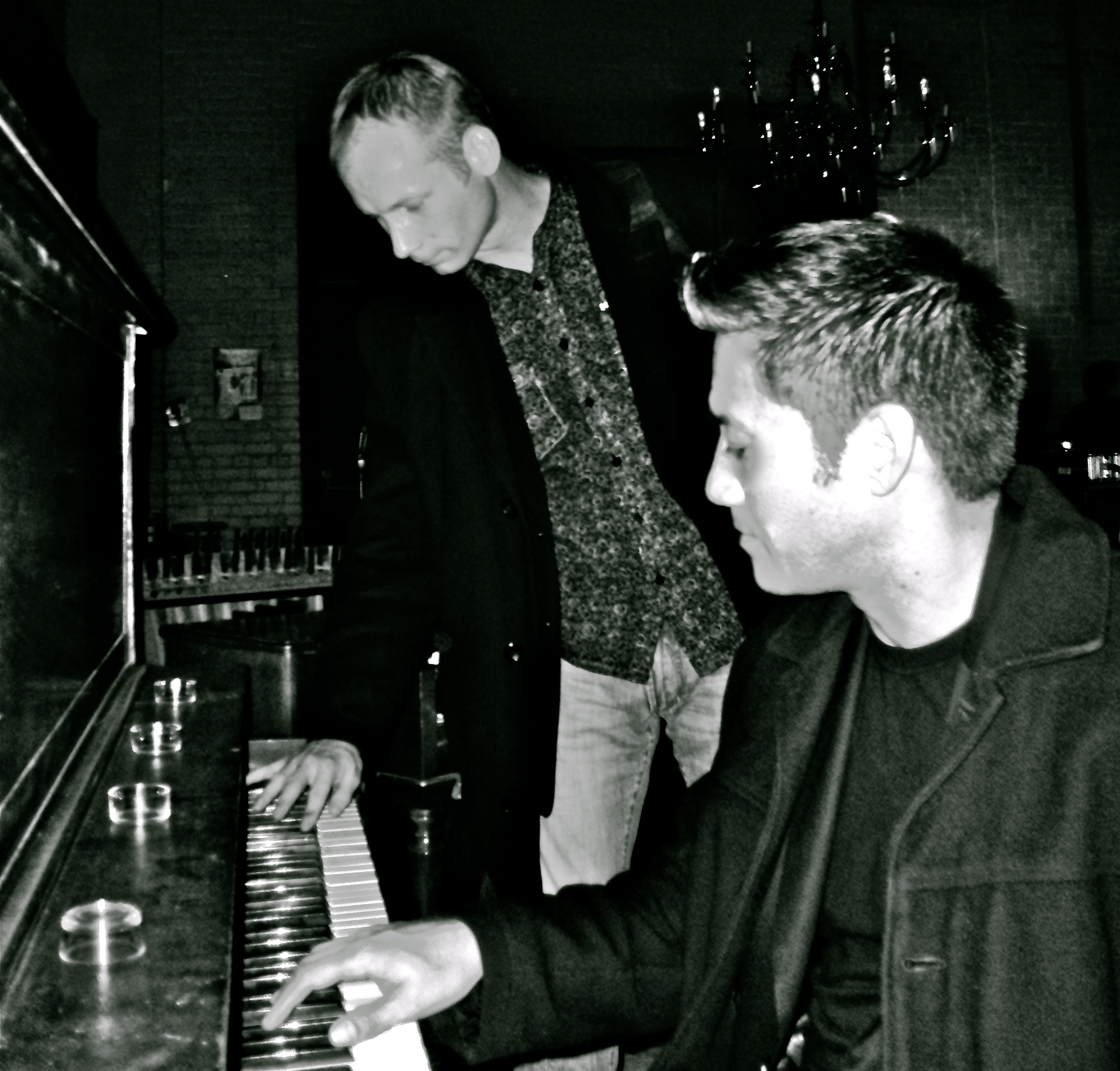 Two of The Bombsters, Chas Andersson and Ernest Mallais in studio in Hamilton